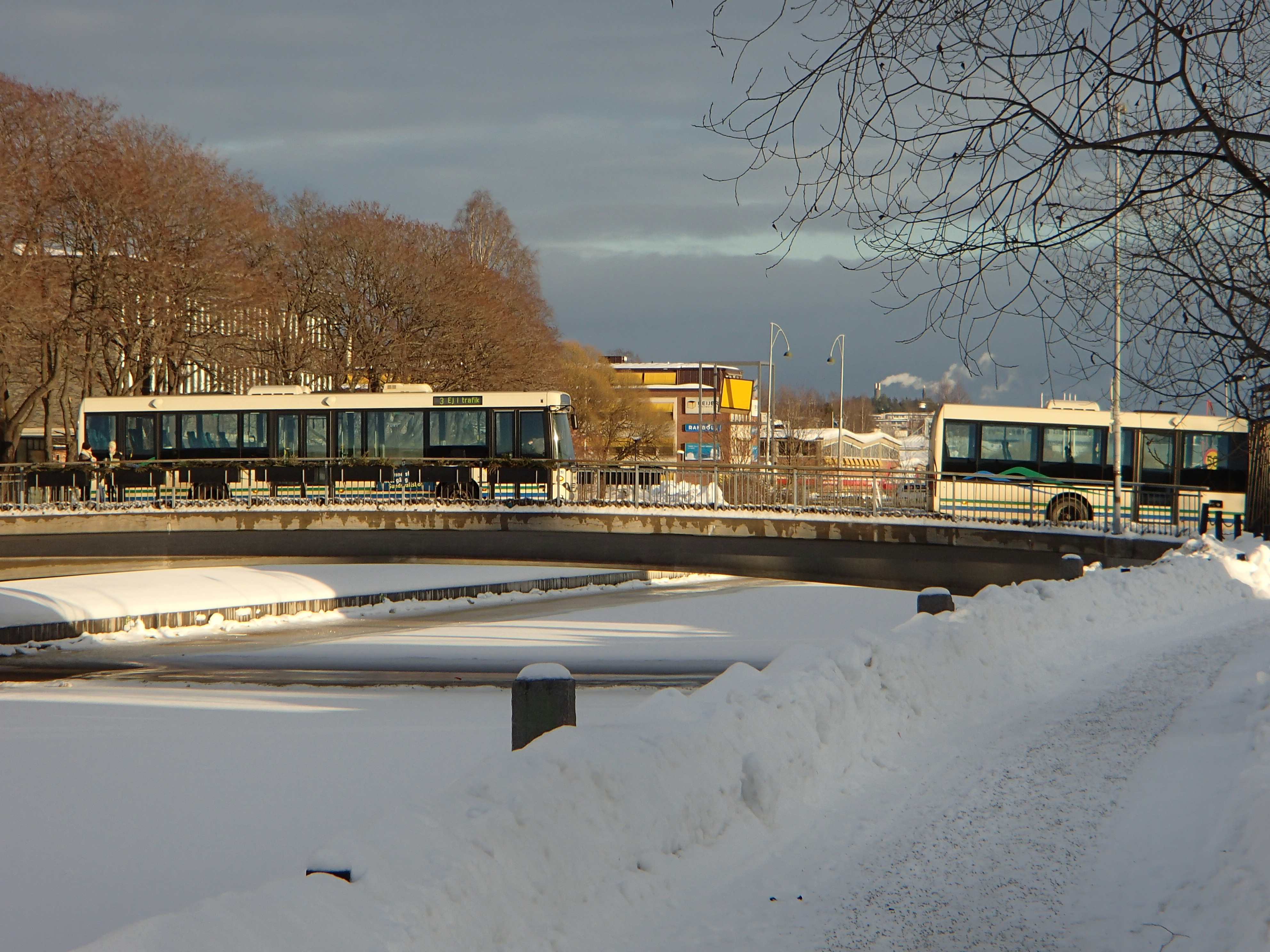 Norrmalmsbron, a bridge across Selångersån river in central Sundsvall, Sweden, viewed from west